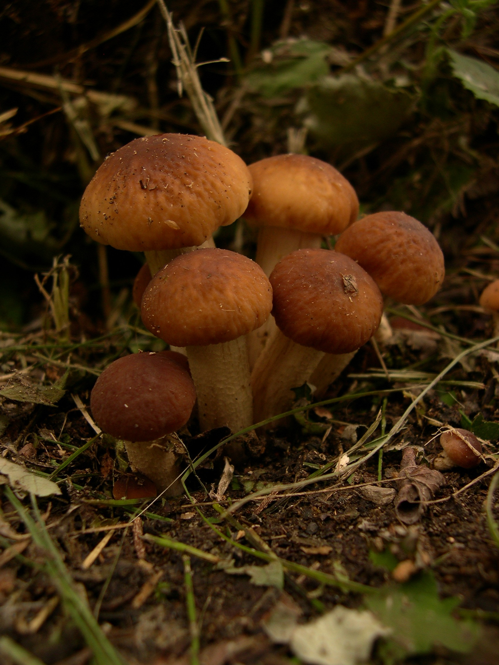 young grouo of Agrocybe aegerita